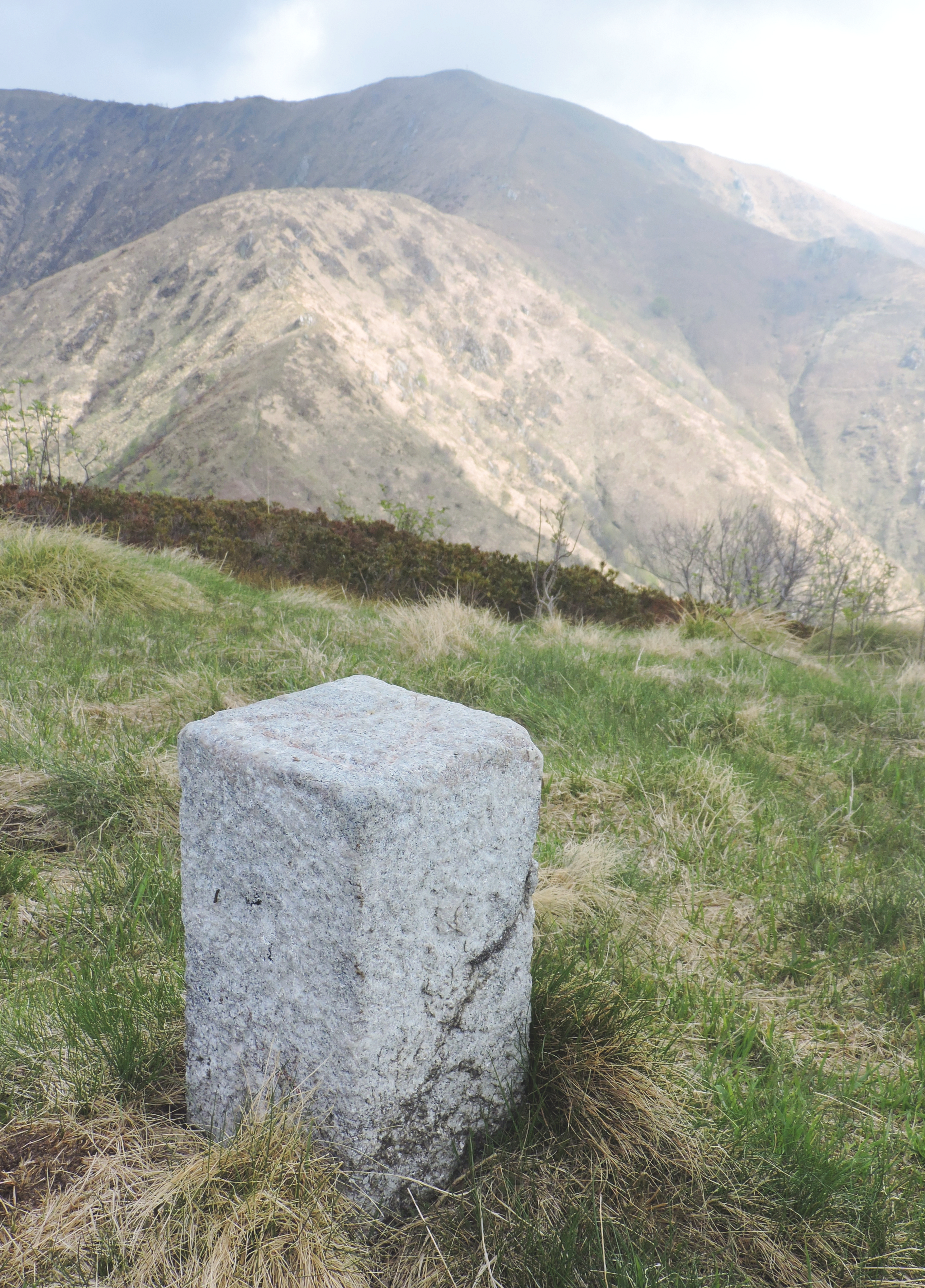 Monte Ostano (Alpi Cusiane, Italy): boundary stone on its summit, Monte Croce in the background